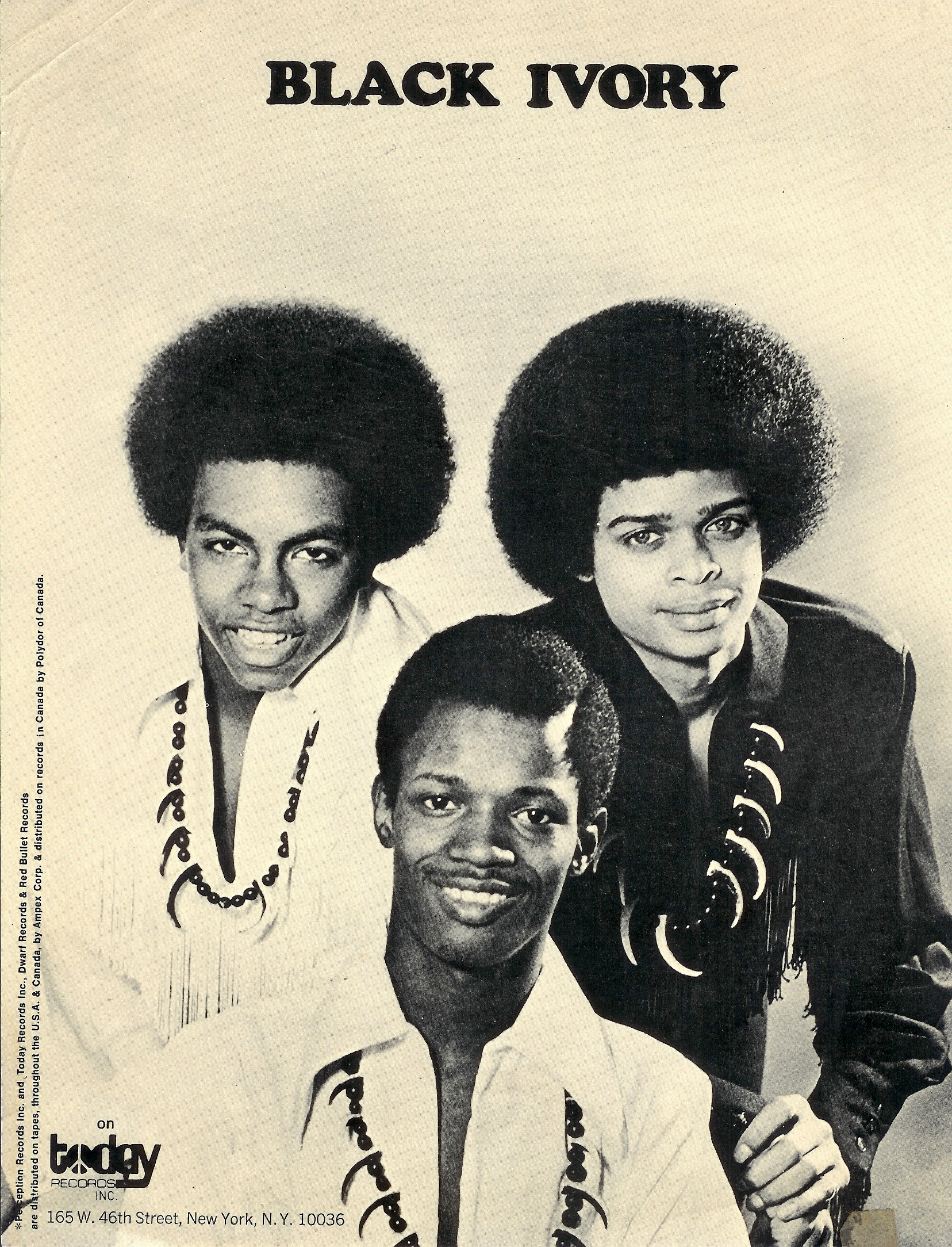 Black Ivory First Promo Picture and cover sleeve for their first single "Don't Turn Around"